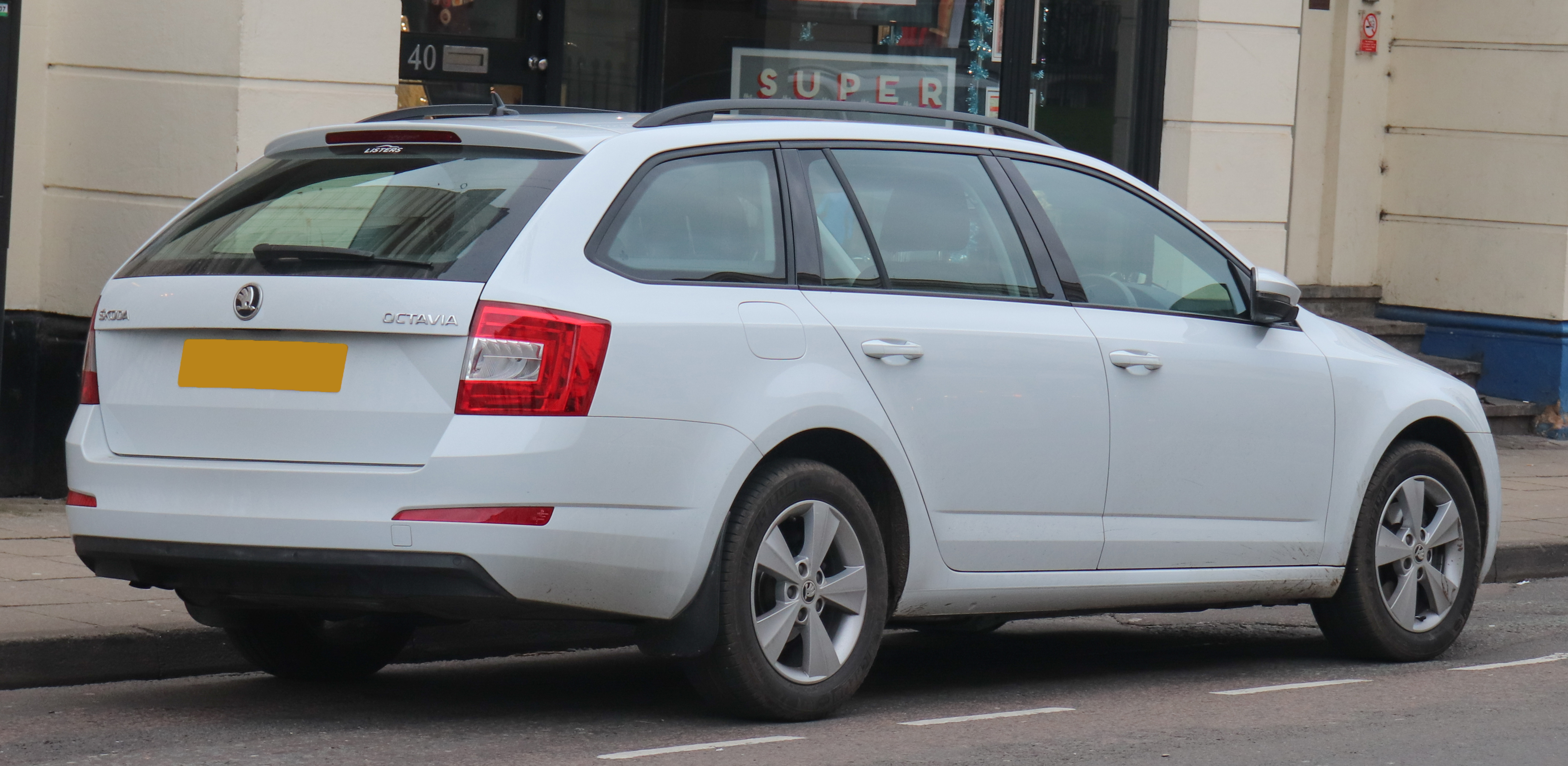 2016 Skoda Octavia SE L TSi Estate 1.4 Rear Taken in Leamington Spa